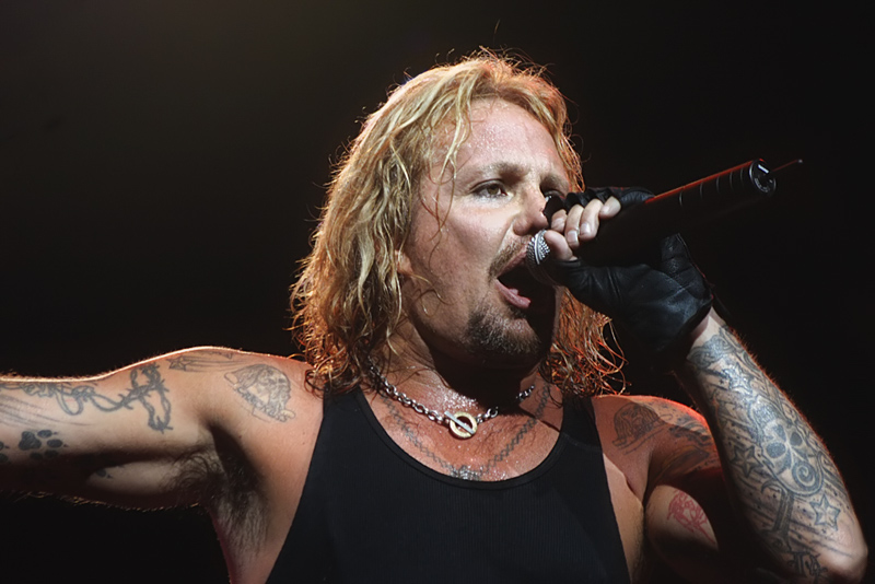 Vince Neil of Mötley Crüe, performing at the Del Mar Fairgrounds.